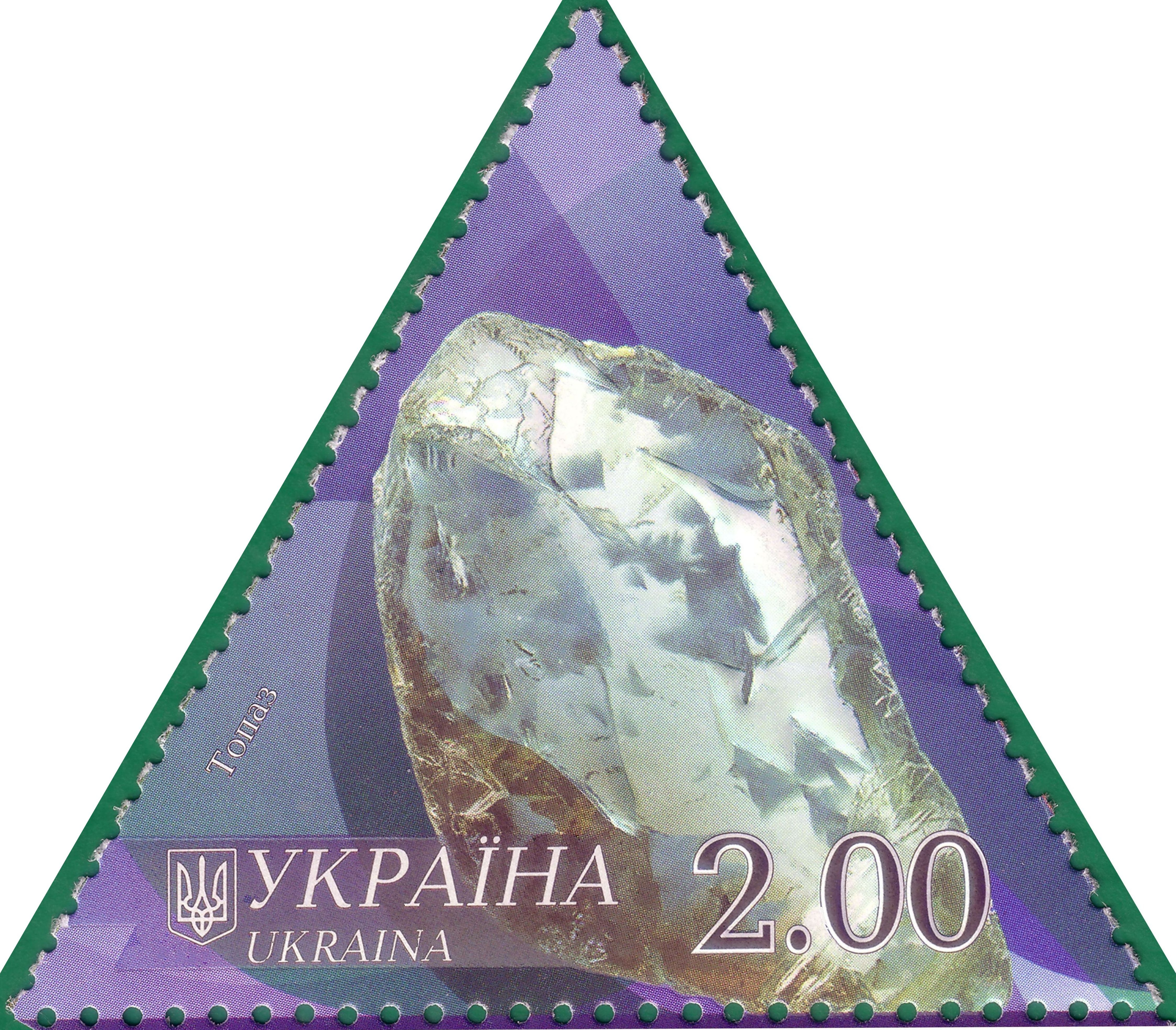 Triangular stamp of Ukraine from the series "Minerals". Face 2 UAH. 2009. Topaz.